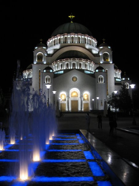 Saint Sava Temple at night in Belgrade/Serbia